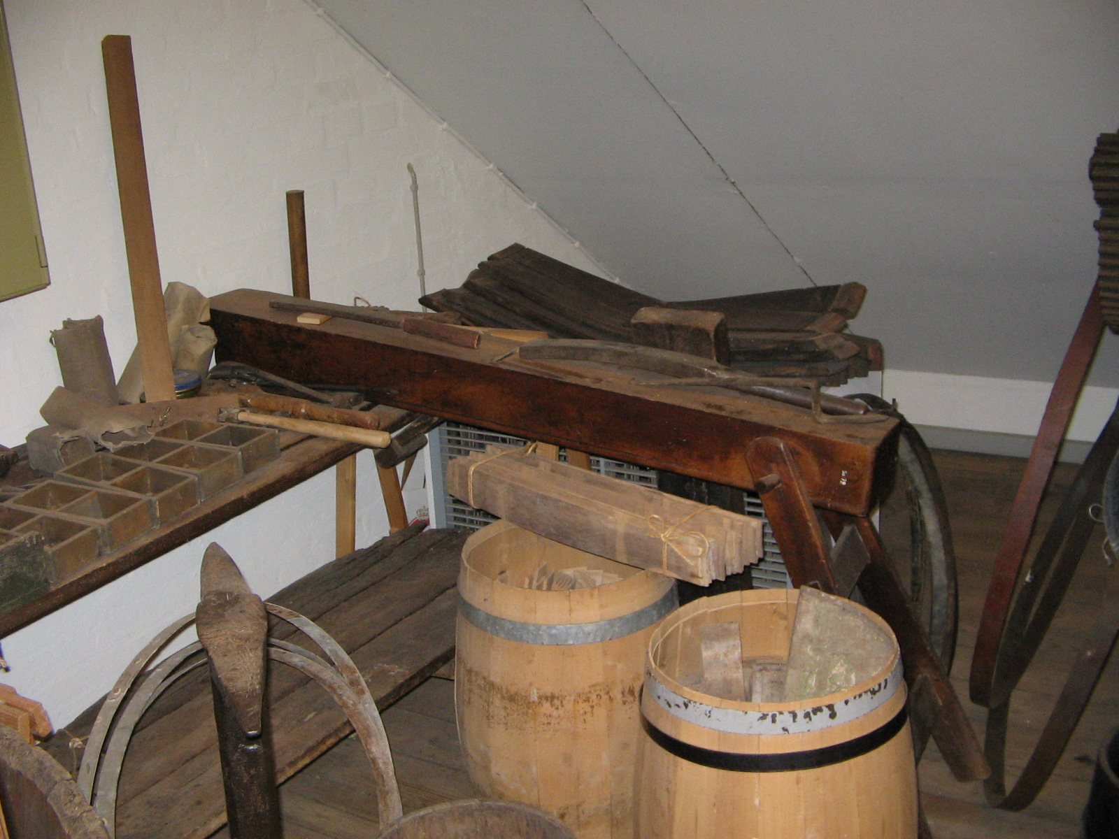 Photo from "Kajsergaarden", Randers. This file was made by B. M. Askholm, Please credit this: B. Askholm foto, 2006 An email to B. Mathias at baskholm(--) would be appreciated too.